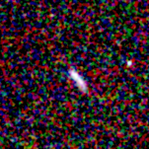 Galaxy NGC 336